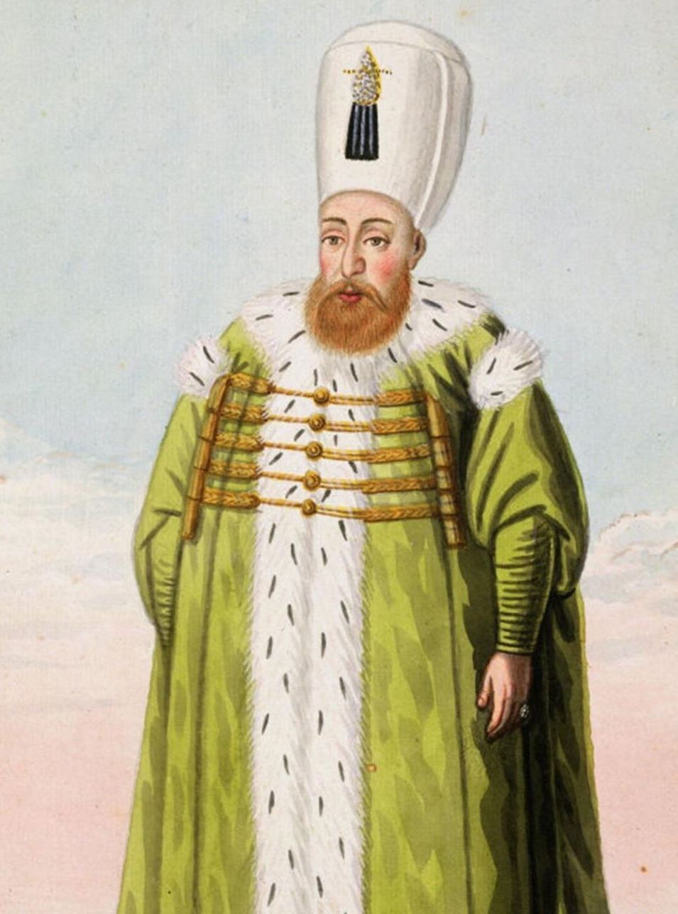 Cropped painting of Mustafa I, Sultan of the Ottoman Empire (1617-1618; 1622-1623)